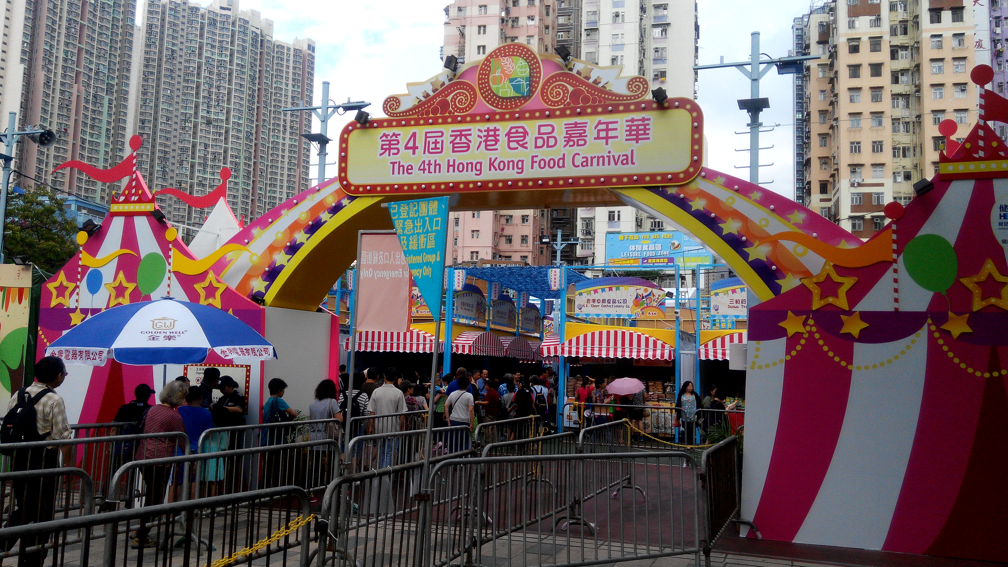 Hong Kong Food Carnival 2015